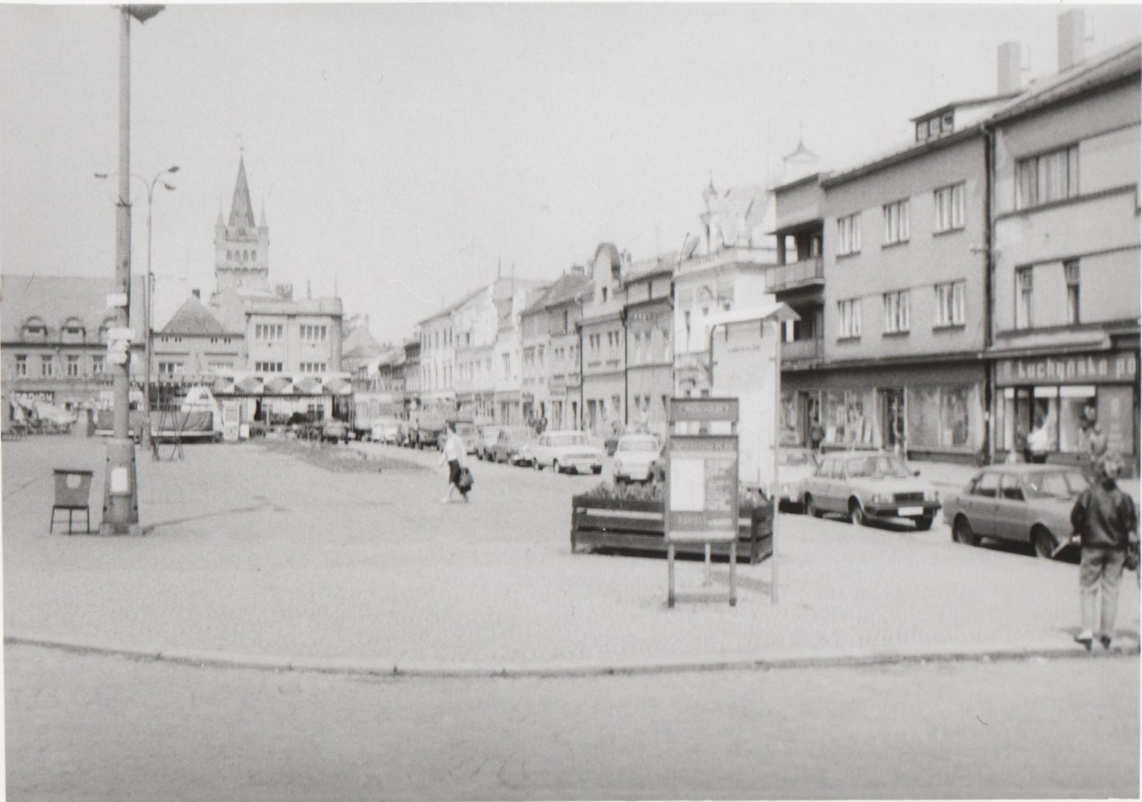 Square of Přemysl Otakar II in Vysoké Mýto, Czechoslovakia.